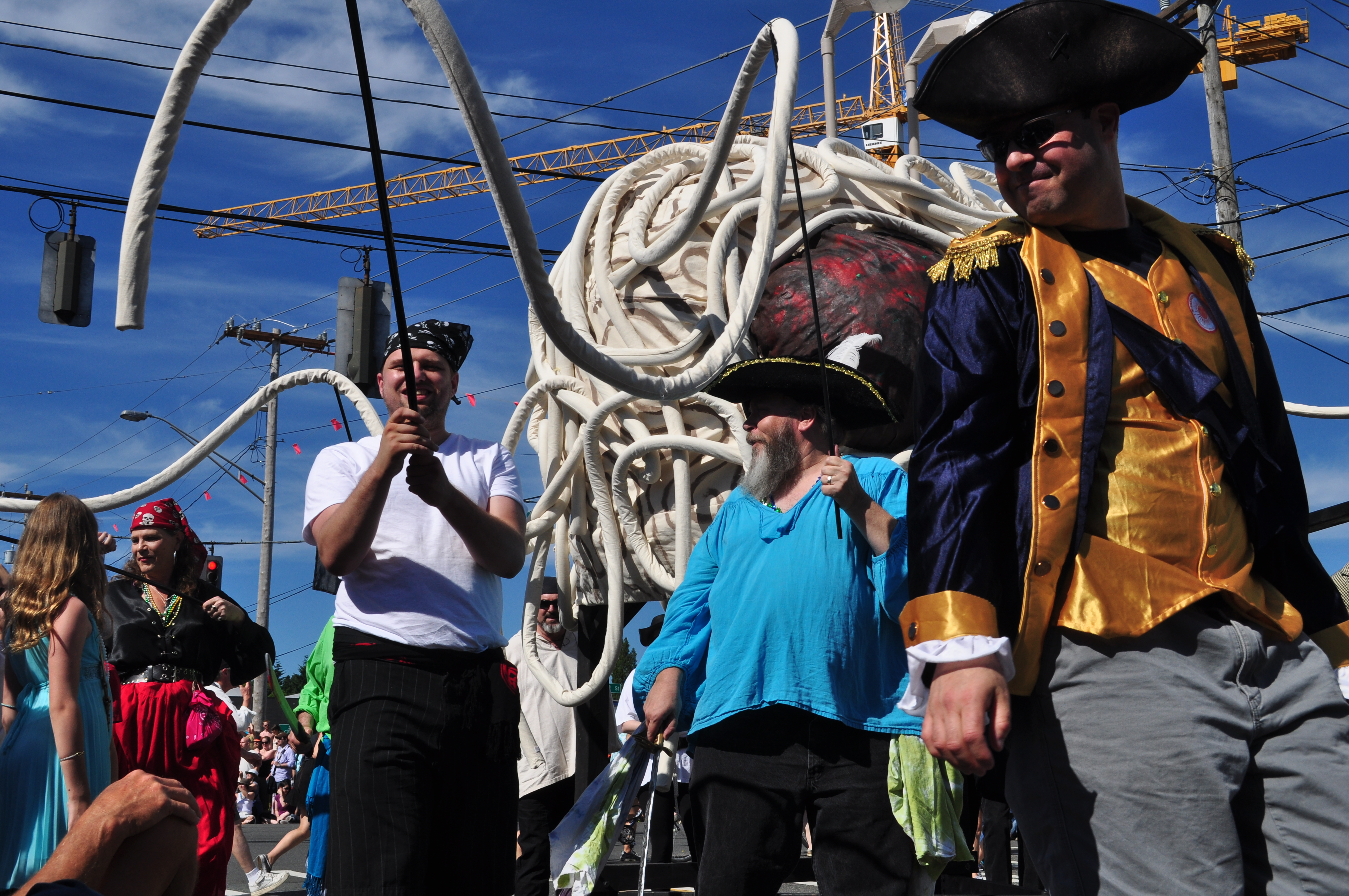 Pirate costumes and Flying Spaghetti Monster, Fremont Solstice Parade, Fremont, Seattle, Washington, June 22, 2013